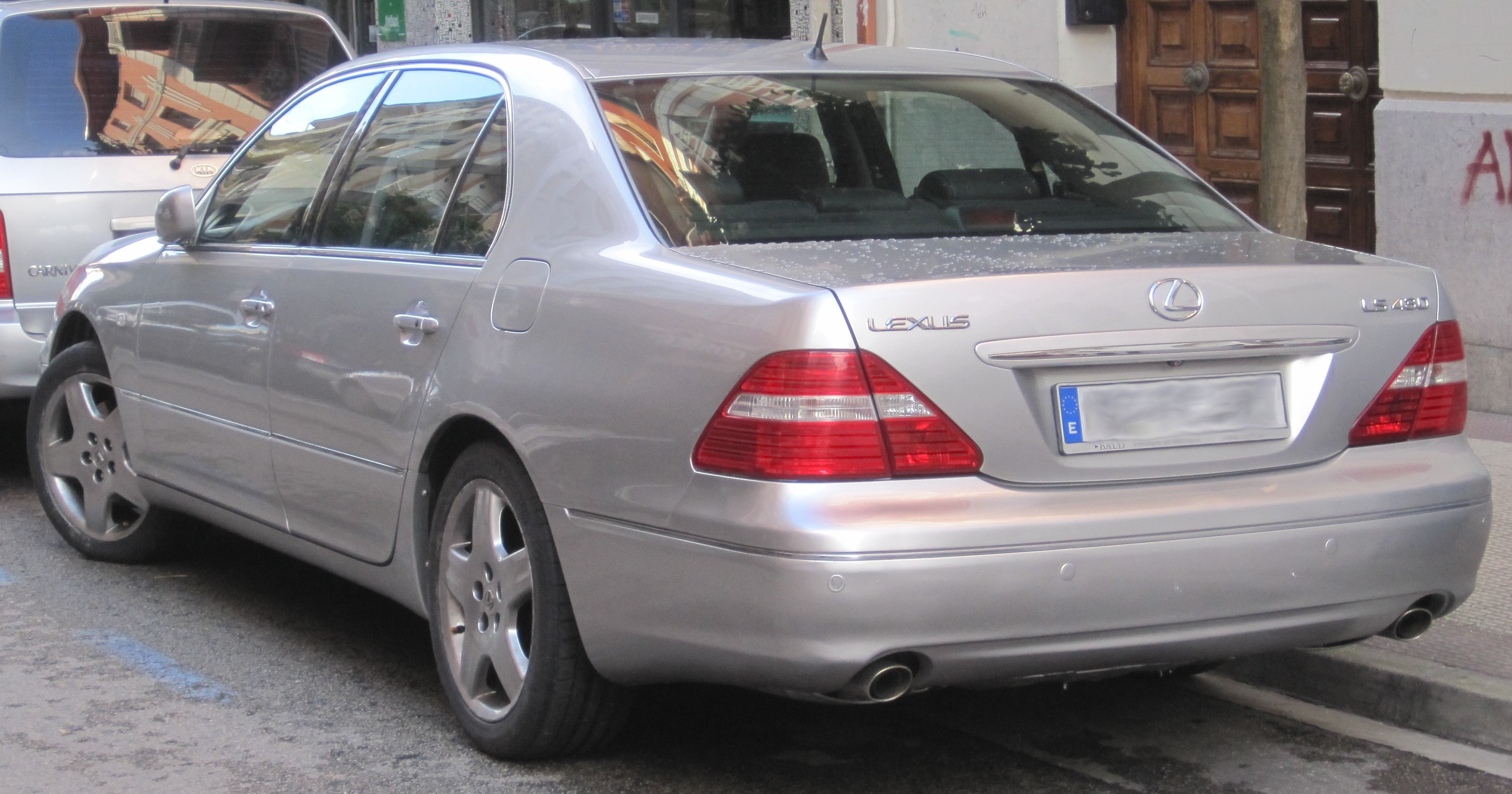 Really nice! seen in Castro Urdiales (Cantabria).